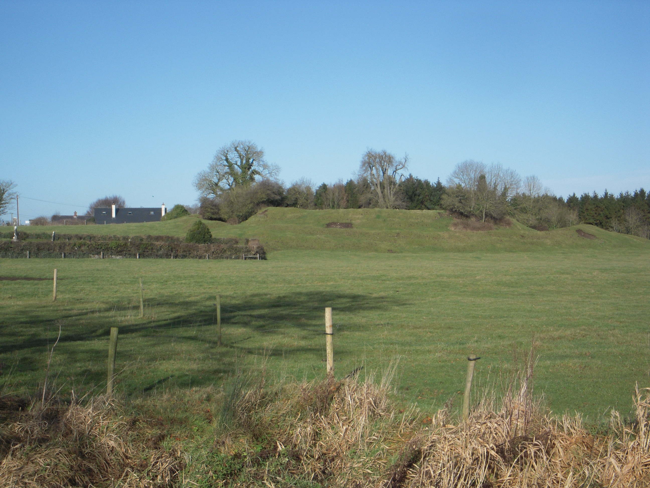 Danestown Ringfort Large Celtic ringfort, prob 7th - 10th Century, may have been a royal residence (local king - Rí Tuatha in Irish)